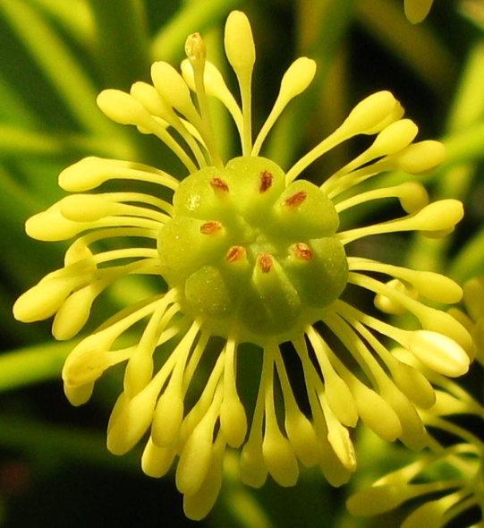 Trochodendron aralioides,Flowers,Aizu area,Fukushima pref.,Japan